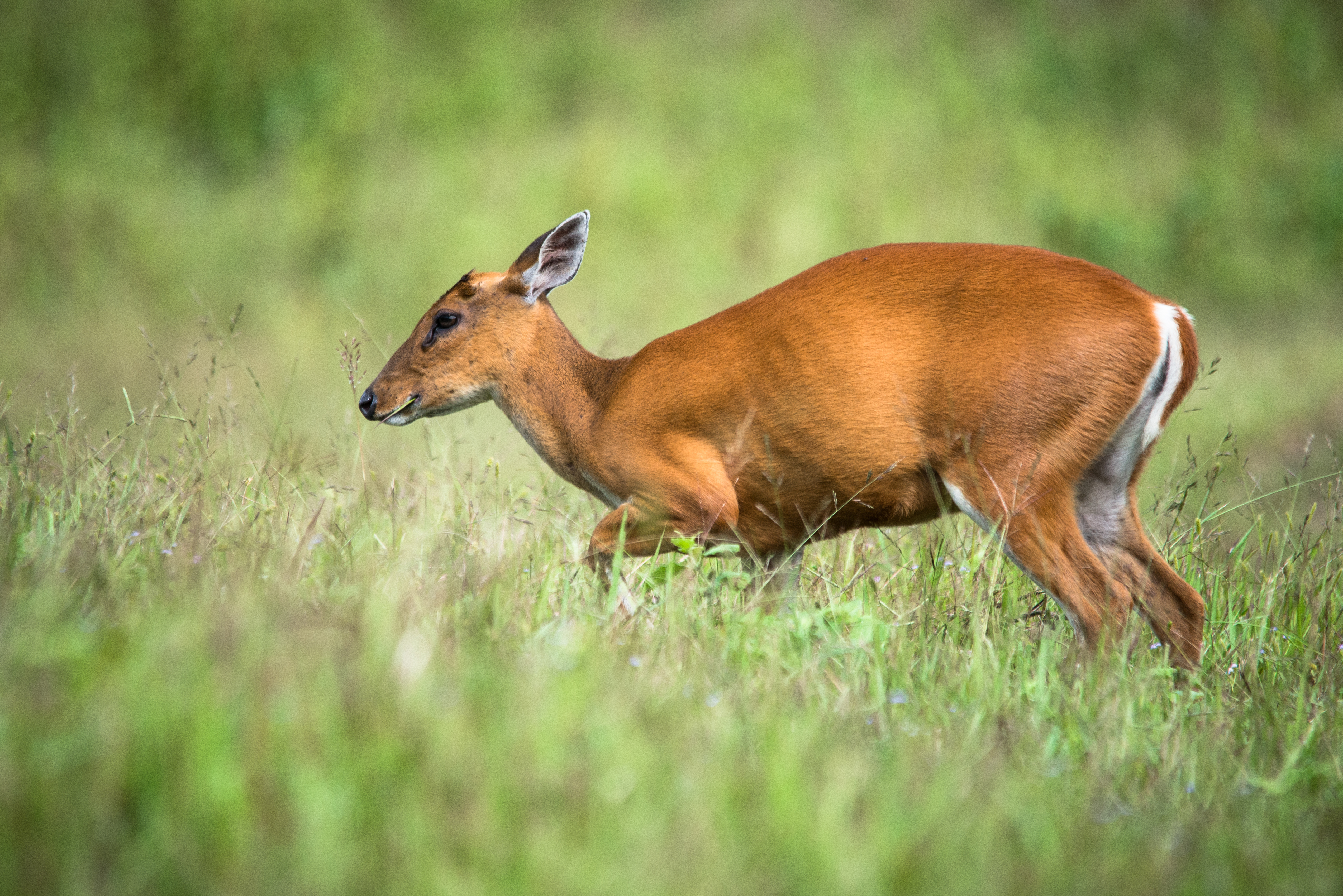 The Indian muntjac, muntiacus muntjak - Khao Yai National Park Photo by Thai National Parks.